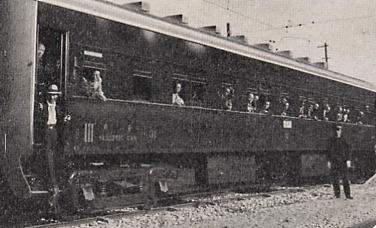 A Chosen Government Railway sleeping car on the Kumgangsan Electric Railway in 1936.